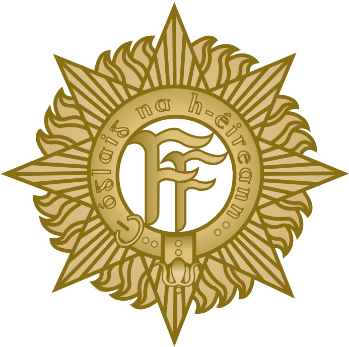 Official Irish Defence Forces Badge (Public Domain)